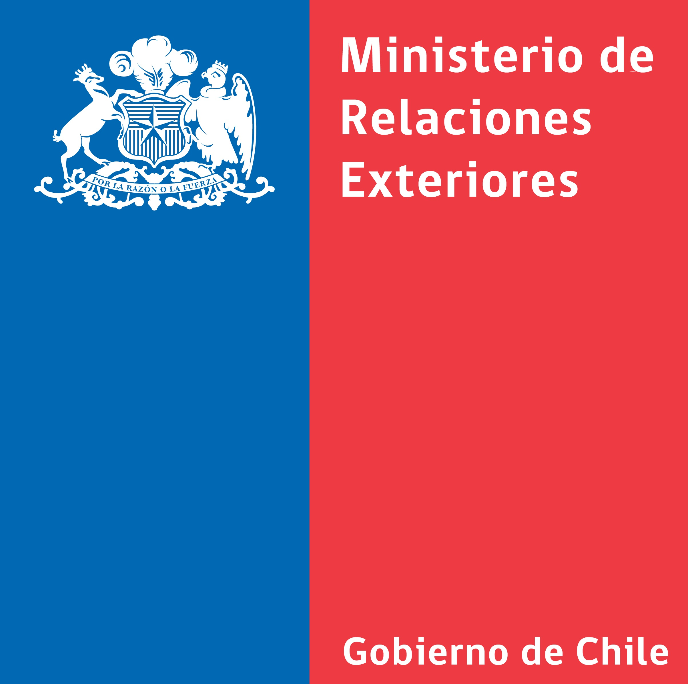 Logo of the Ministry of Foreign Affairs of Chile.